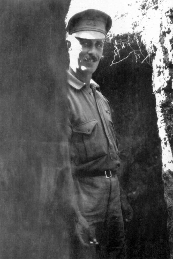 Lieutenant A.J. Shout, 1st Battalion, AIF, standing at Quinn's Post, Gallipoli. Shout is standing at the entrance to the tunnel connecting Quinn's to Courtney's Post.